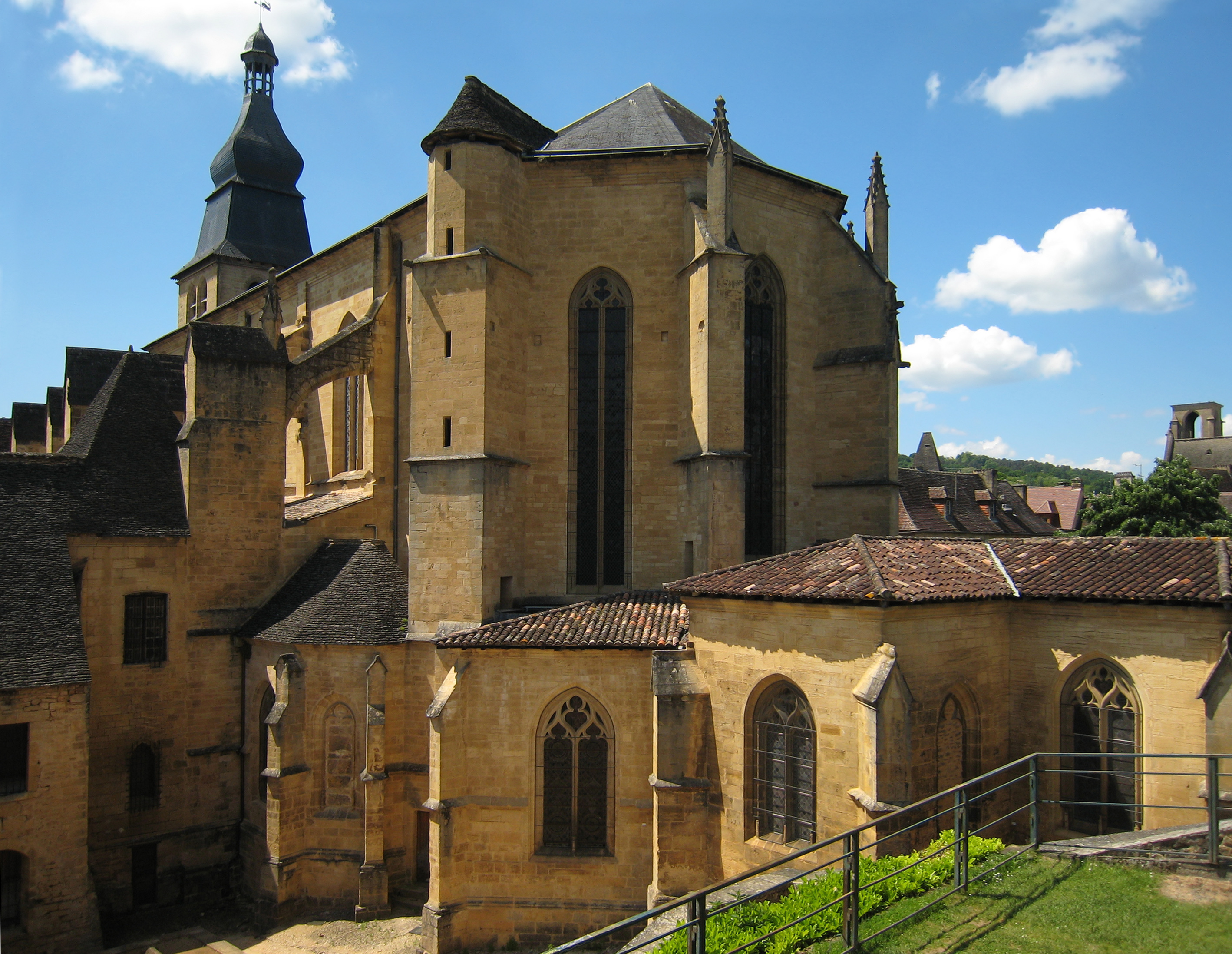 Village of Sarlat in the Département of Dordogne/France - old town, Basilica